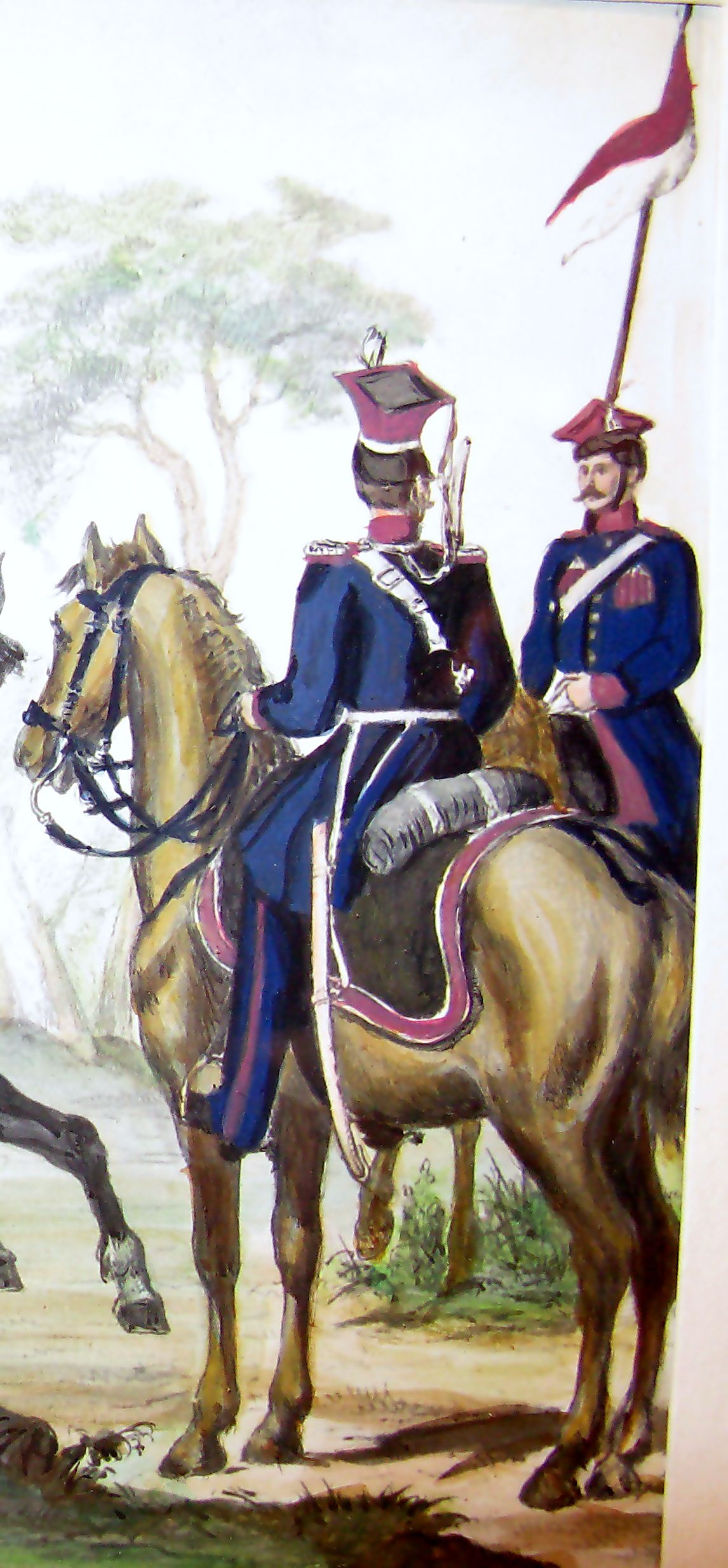 Cavalery of Augustów of Polish Army of November Uprising